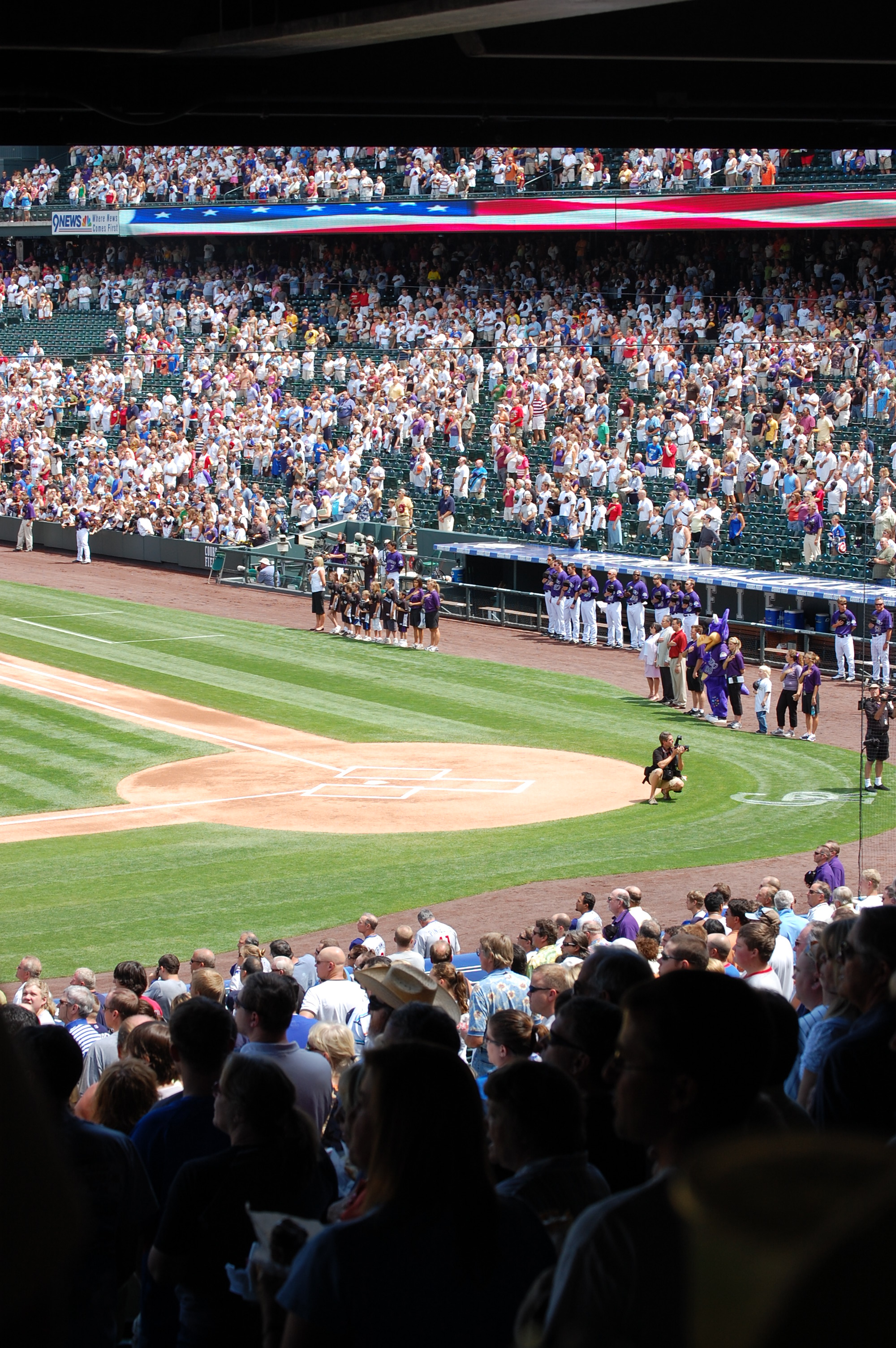 Sports fans stand for US National anthem "The Star-Spangled Banner" most likely in a baseball game in a stadium.